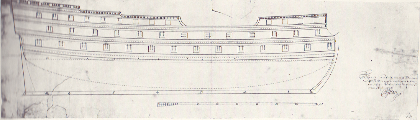 Side view of Danish ship of the line Dannebroge, launched 1692.